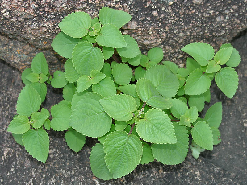 Kapurli Anisochilus carnosus in Hyderabad , India.